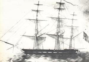 USS Preble